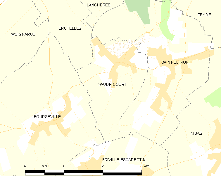 Map of French municipality Vaudricourt